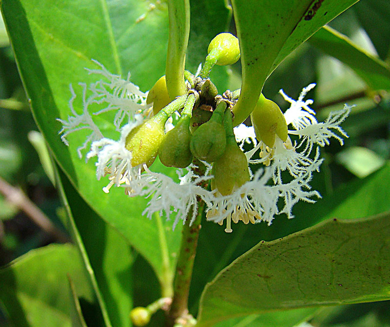 Cassipourea elliptica (= Cassipourea guianensis). Native to the coasts of Central America and the Caribbean. Photo from the mangrove zone of Isla Zapatilla, northwestern Panama. In context at